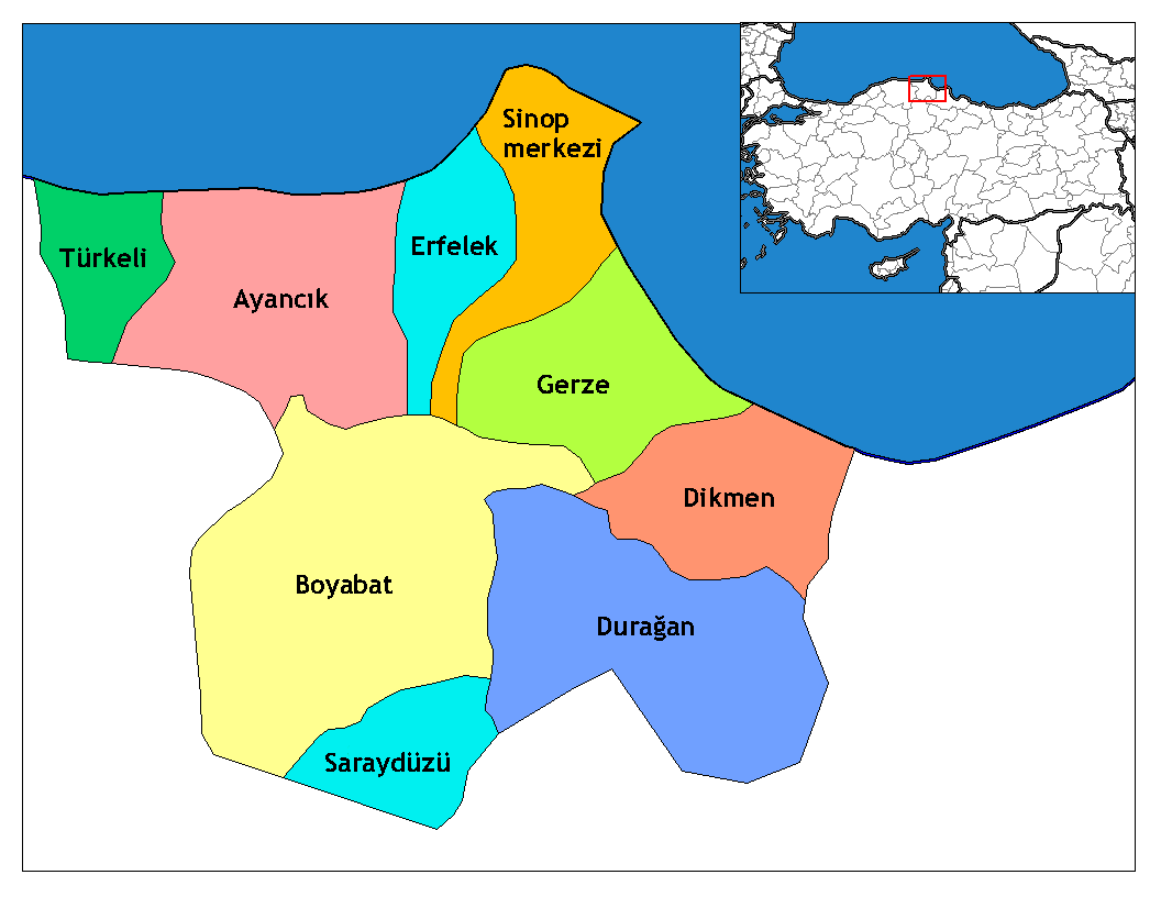 Map of the districts of Sinop province in Turkey. Created by Rarelibra 17:13, 4 December 2006 (UTC) for public domain use, using MapInfo Professional v8.5 and various mapping resources. Edited by One Homo Sapiens Corrected text where İ,Ş,ı,ğ,or ş occurs in name. Source: [statoids-com]. Increased font size and enhanced color differences among adjacent districts.